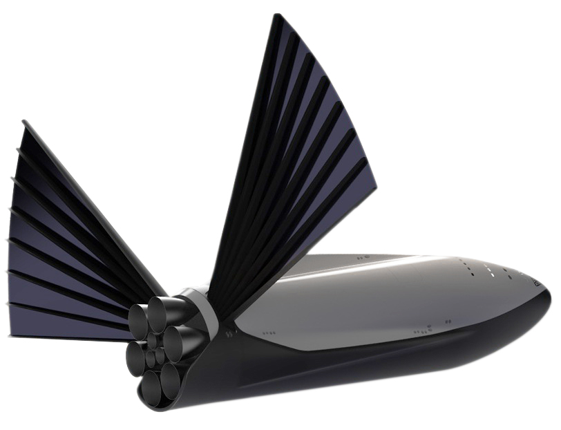 Close up back quarter view of the Interplanetary Spaceship, with solar panels extended, including view of engine configuration. This image is from a SpaceX render of the spaceship, originally released by SpaceX with an artist's conception of Jupiter in the background. The artwork was helpfully removed by User:Begoon so the image might be used in descriptions of the engineering vehicle without the connection to far-off highly-speculative destinations the ship might one day fly to.